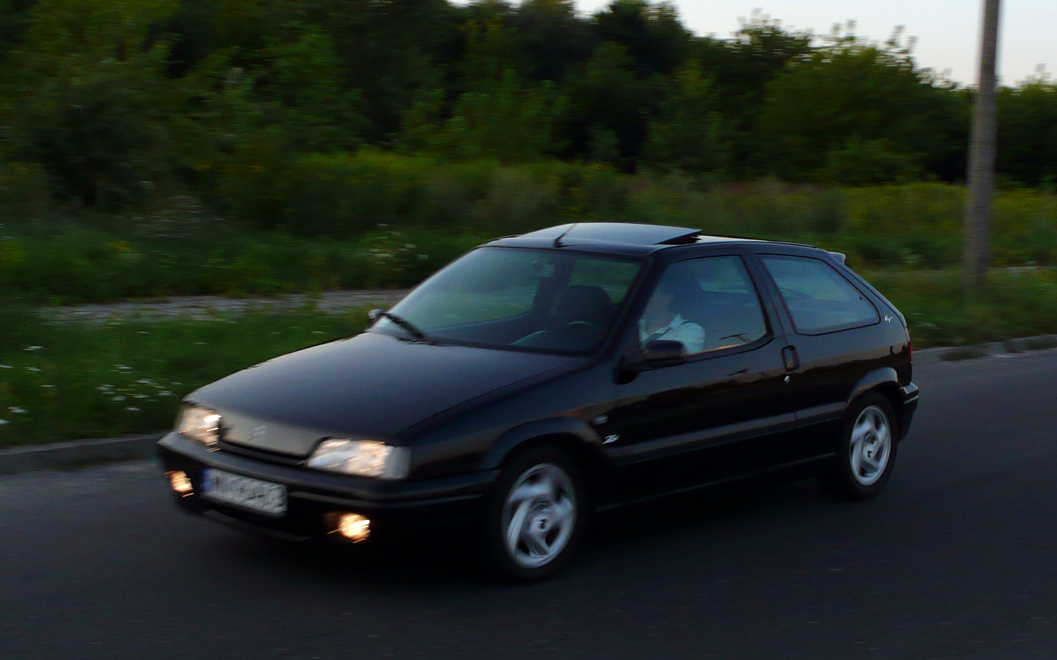 Citroen ZX